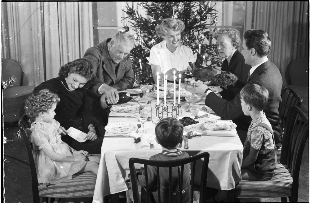 Christmas dinner KB id: turck_61927 Photo: Sven Türck (1897-1954) Department of Maps, Prints and Photographs, The Royal Library, Denmark.